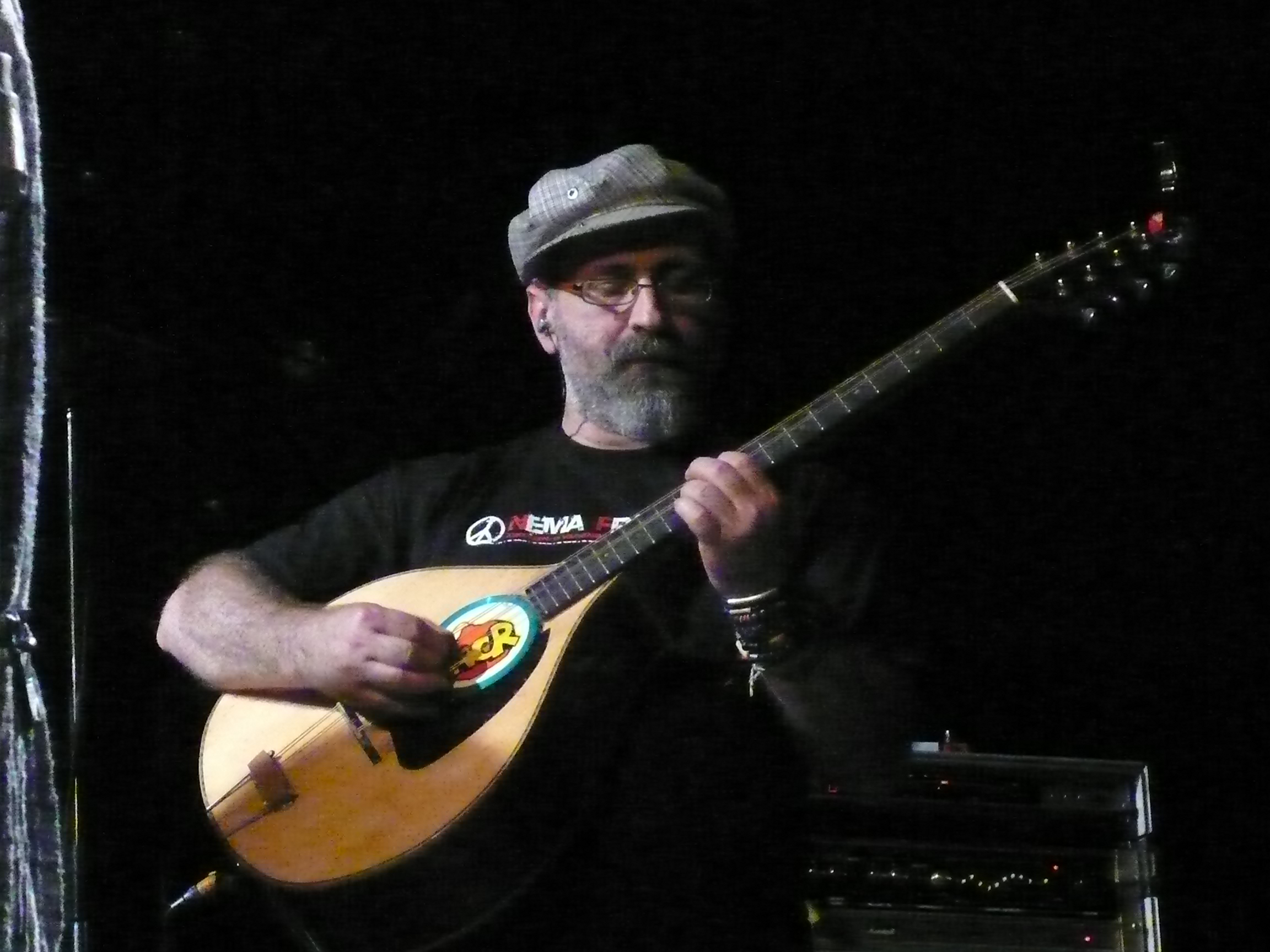 Luca Giacometti while playing bouzouki